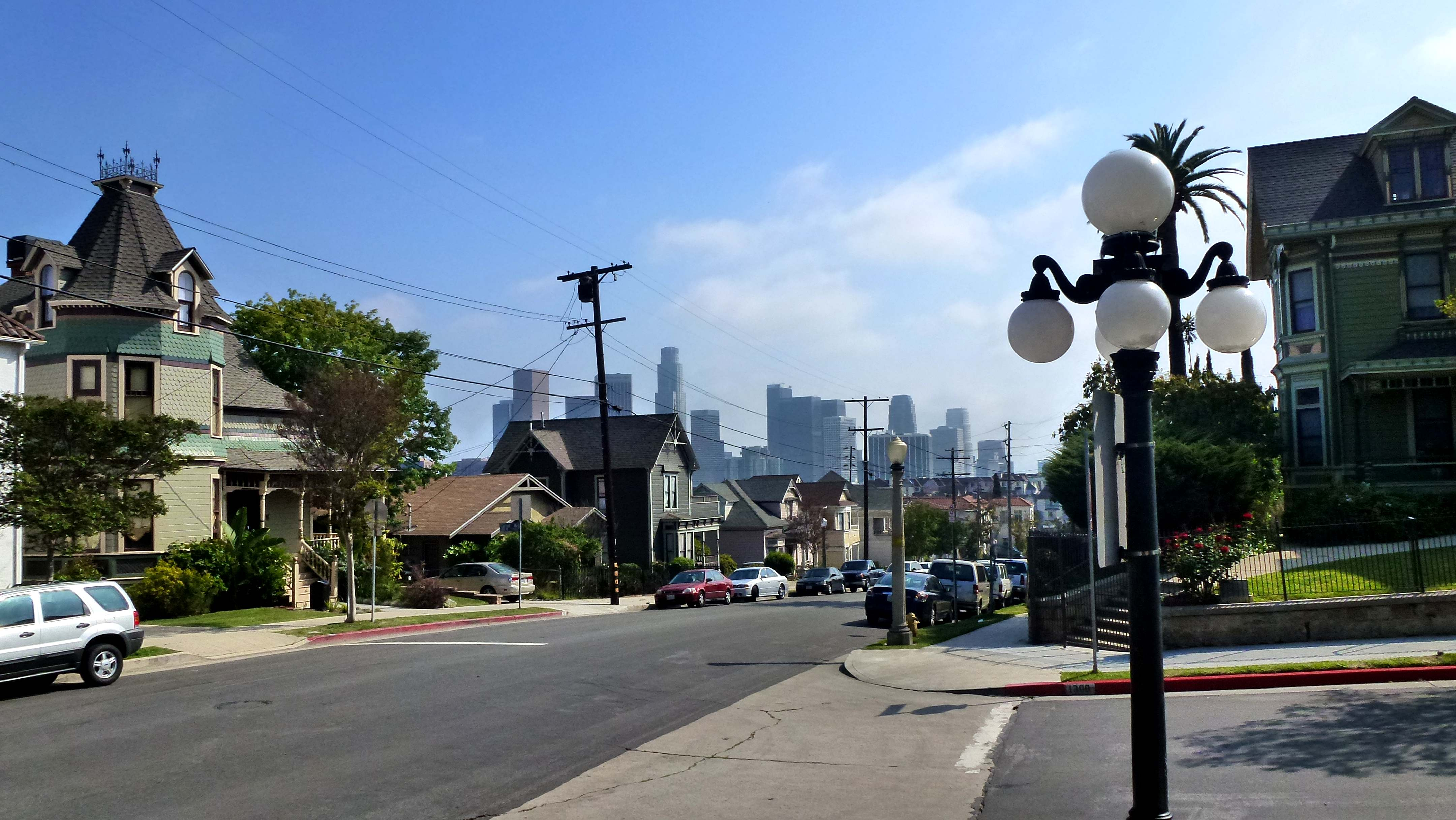 View from Carroll Avenue of 724 East Edgeware and the Phillips house — in Angelino Heights, Los Angeles. Downtown Los Angeles skyline in backround.